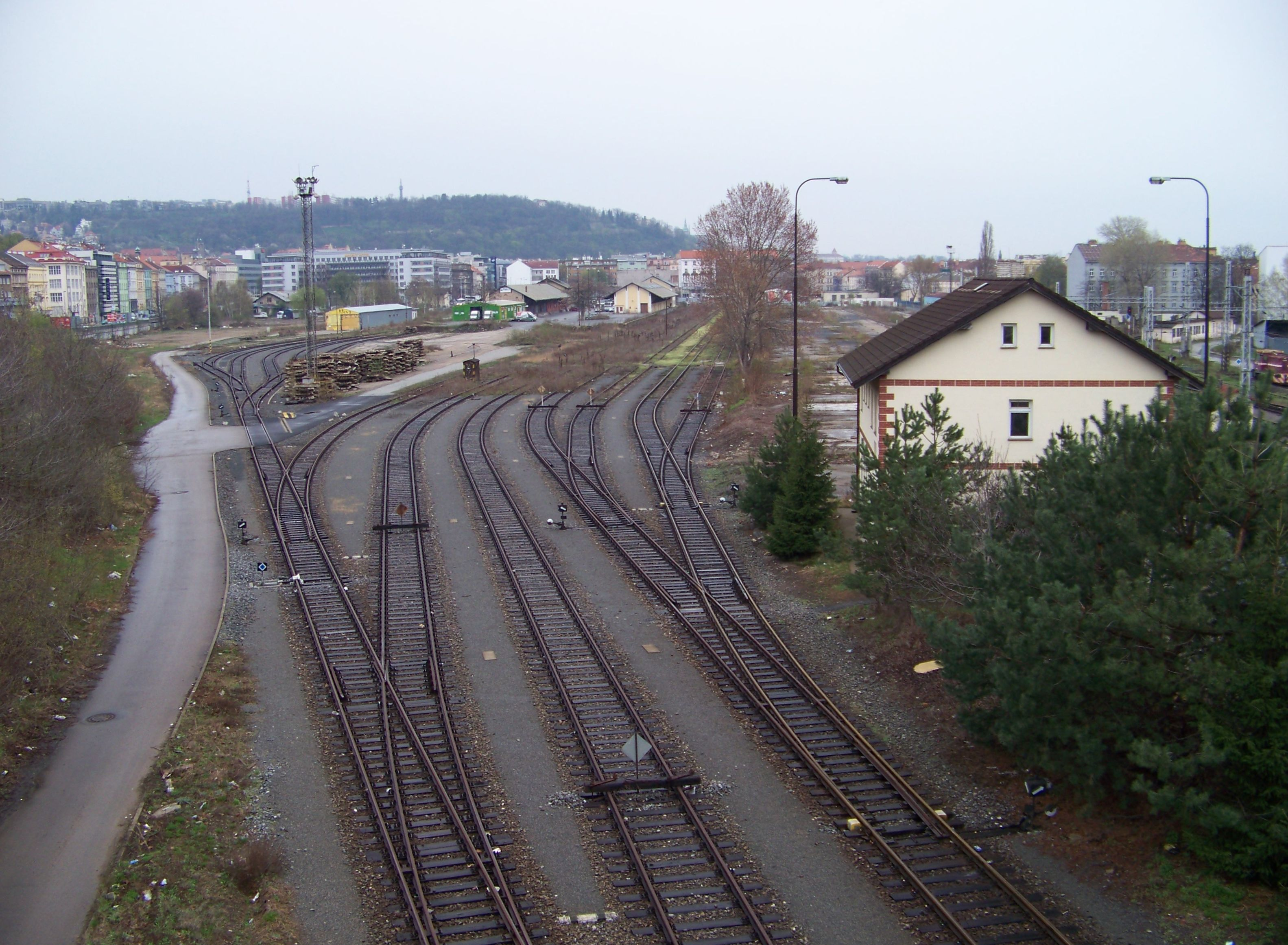 Prague-Smíchov, the Czech Republic. Train station.